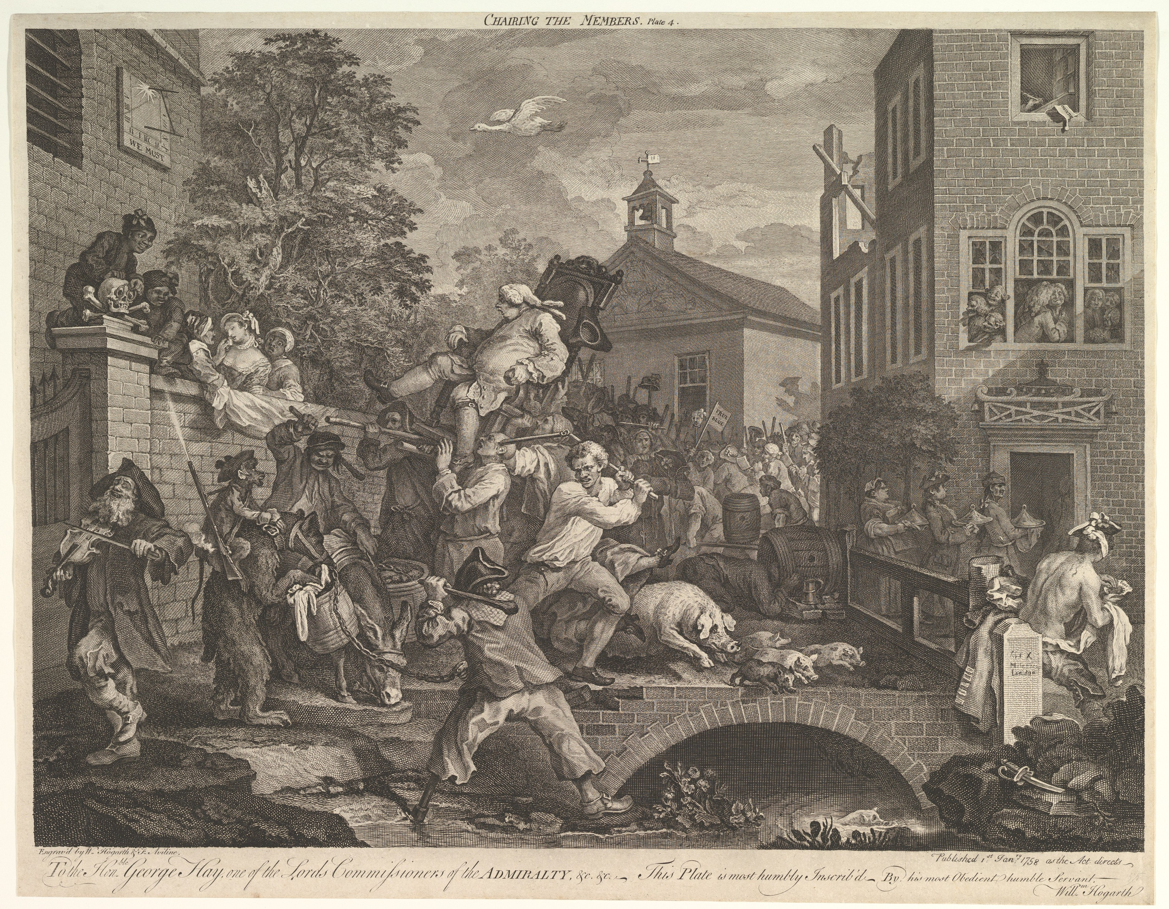 Print; Prints